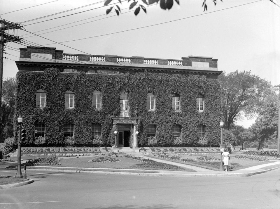 We see the ivy covered facade of Montreal West Town Hall. Front of the building of the beds of flowers form the sentence: "Work for Victory. Let Us Be Free".